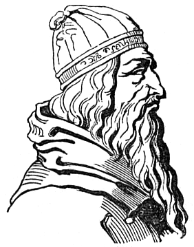 Aristotle